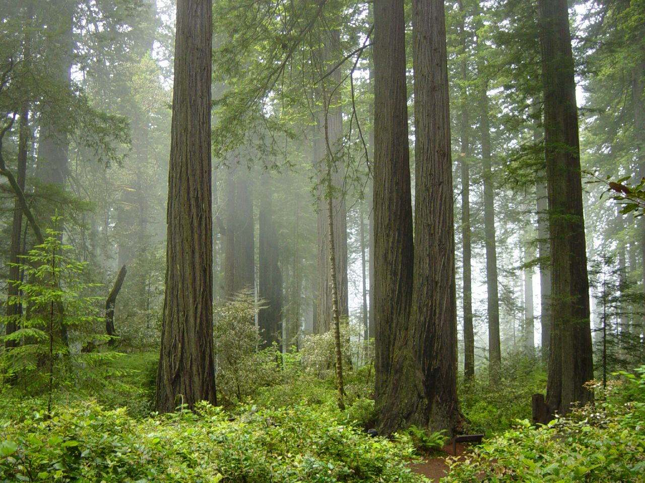 Coast Redwood forest and understory plants — in Redwood National Park, California.